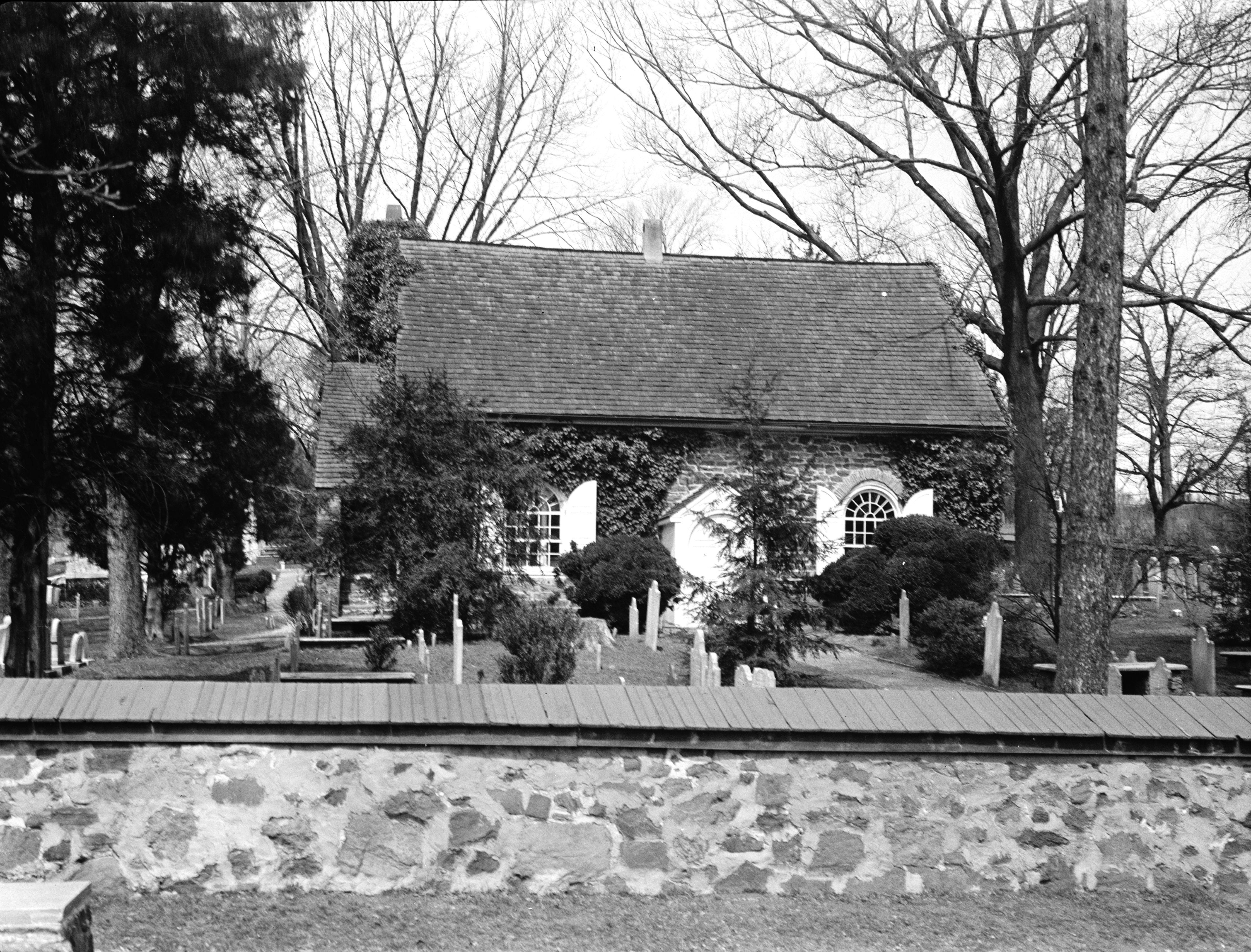 St. David's Episcopal Church, located in Radnor, Pennsylvania.